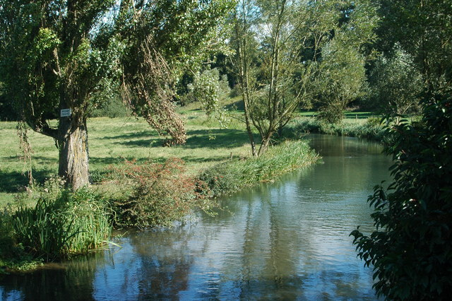 River Coln, near to Coln st Aldwyns, Gloucestershire, Great Britain.